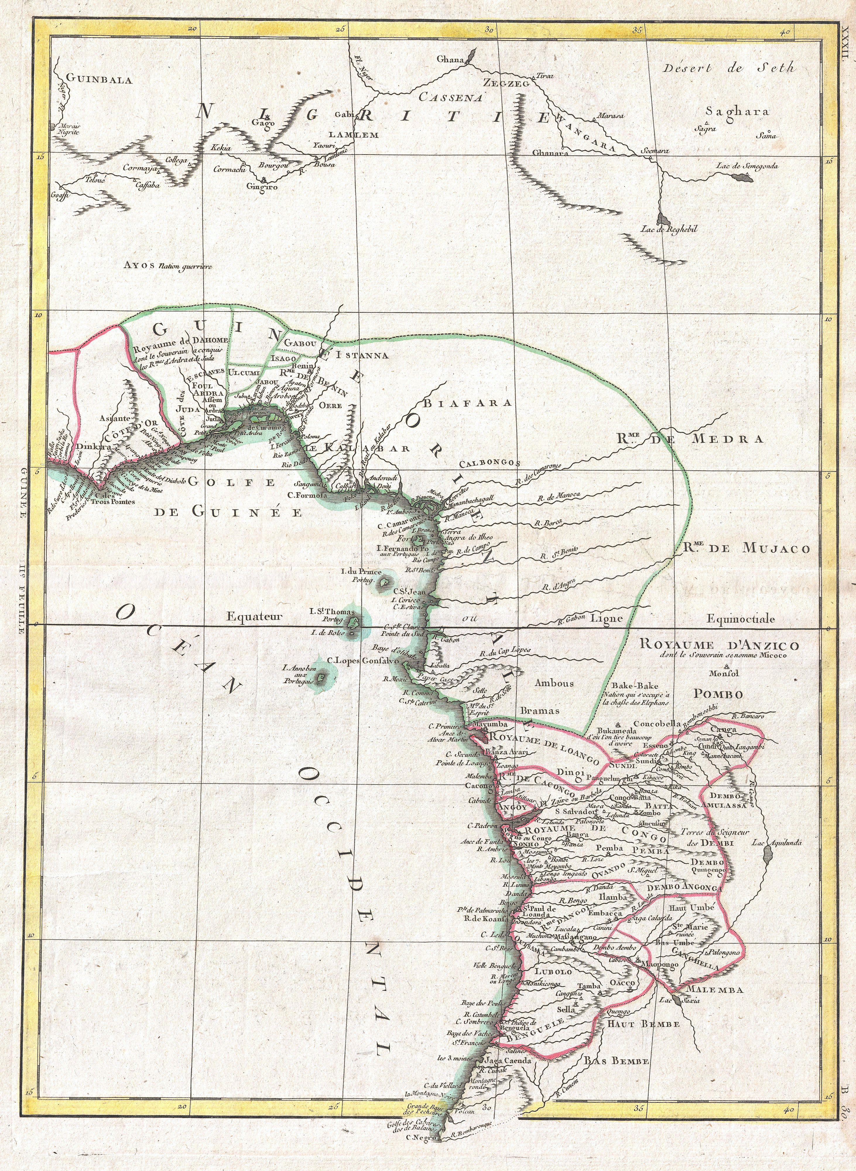 A beautiful example of Rigobert Bonne's 1770 decorative map of West Africa. Covers from the Gold Coast (modern day Ghana), south around the Bight of Benin (Biafara) to Gabon, Congo and Angola. Includes the modern day countries of Ghana, Togo, Benin, Nigeria, Cameroon, Equatorial Guinea, Gabon, Congo and Angola. As with most maps of Africa, this map shows excellent detail along the coast and only speculation in the interior. Give evidence of significant Belgian mapping activities throughout the Congo. Names numerous African Kingdoms including Anzico, Mujaco, Bembe, Lubolo, Pemba, Dembi, Calbongo, Bake-Bake, Benin and others. Attempts to map the Niger River as to flows into the Desert de Seth or Saghara, but most of this cartography is speculative at best. Drawn by R. Bonne in 1770 for issue as plate no. B 30 in Jean Lattre's 1776 issue of the Atlas Moderne .